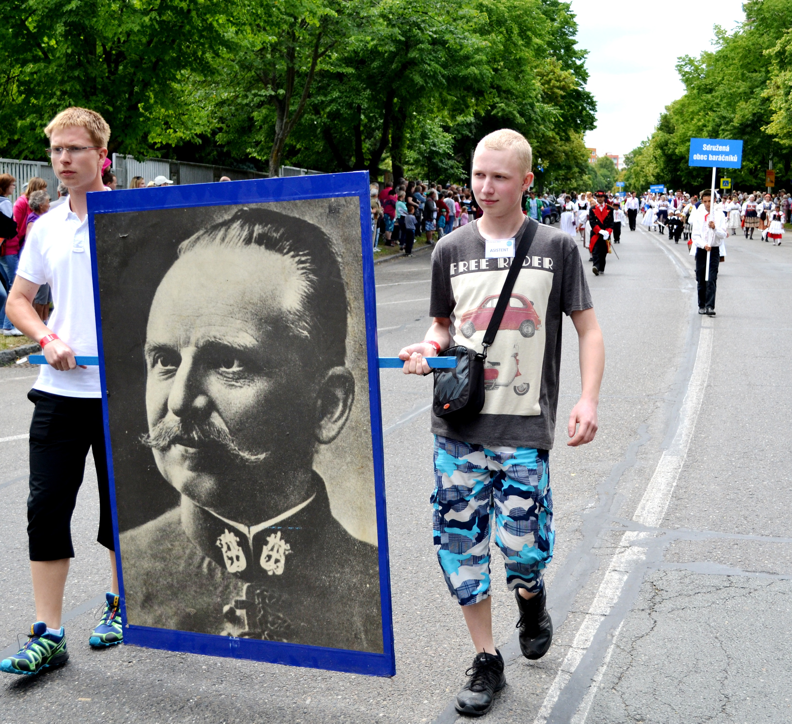 Kmochův Kolín 2014 - International music festival